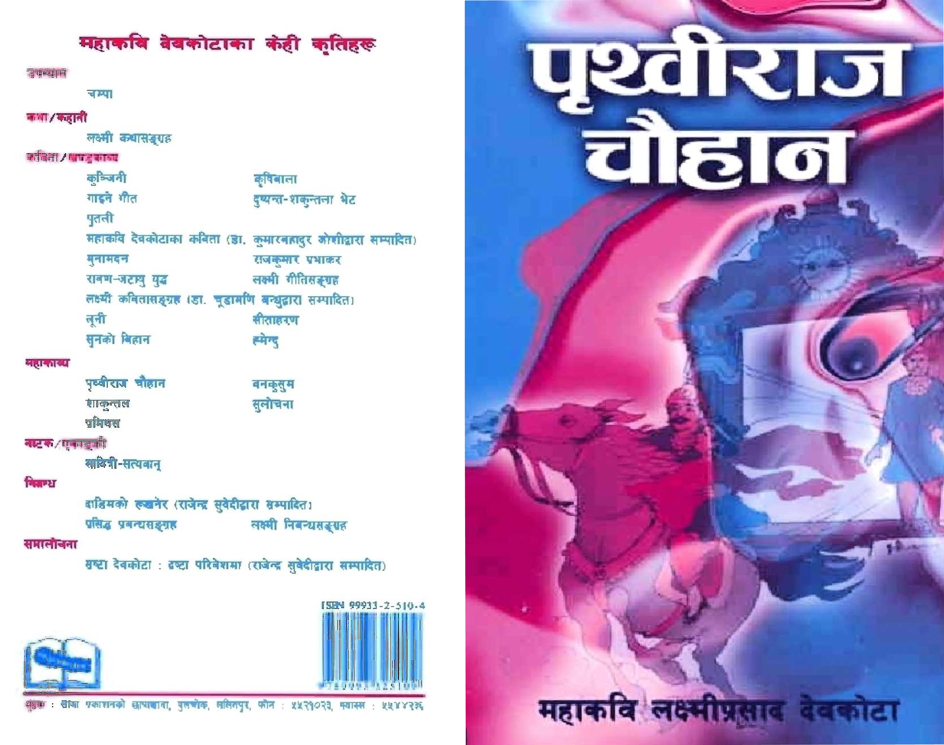 Book Cover Designed by Tekbir Mukhiya.